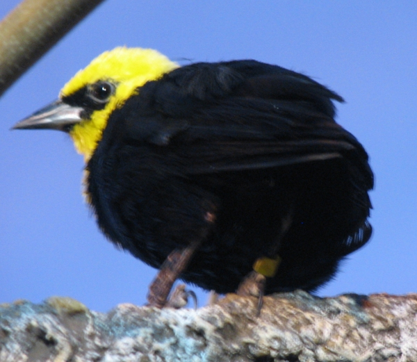 Yellow Hooded Blackbird